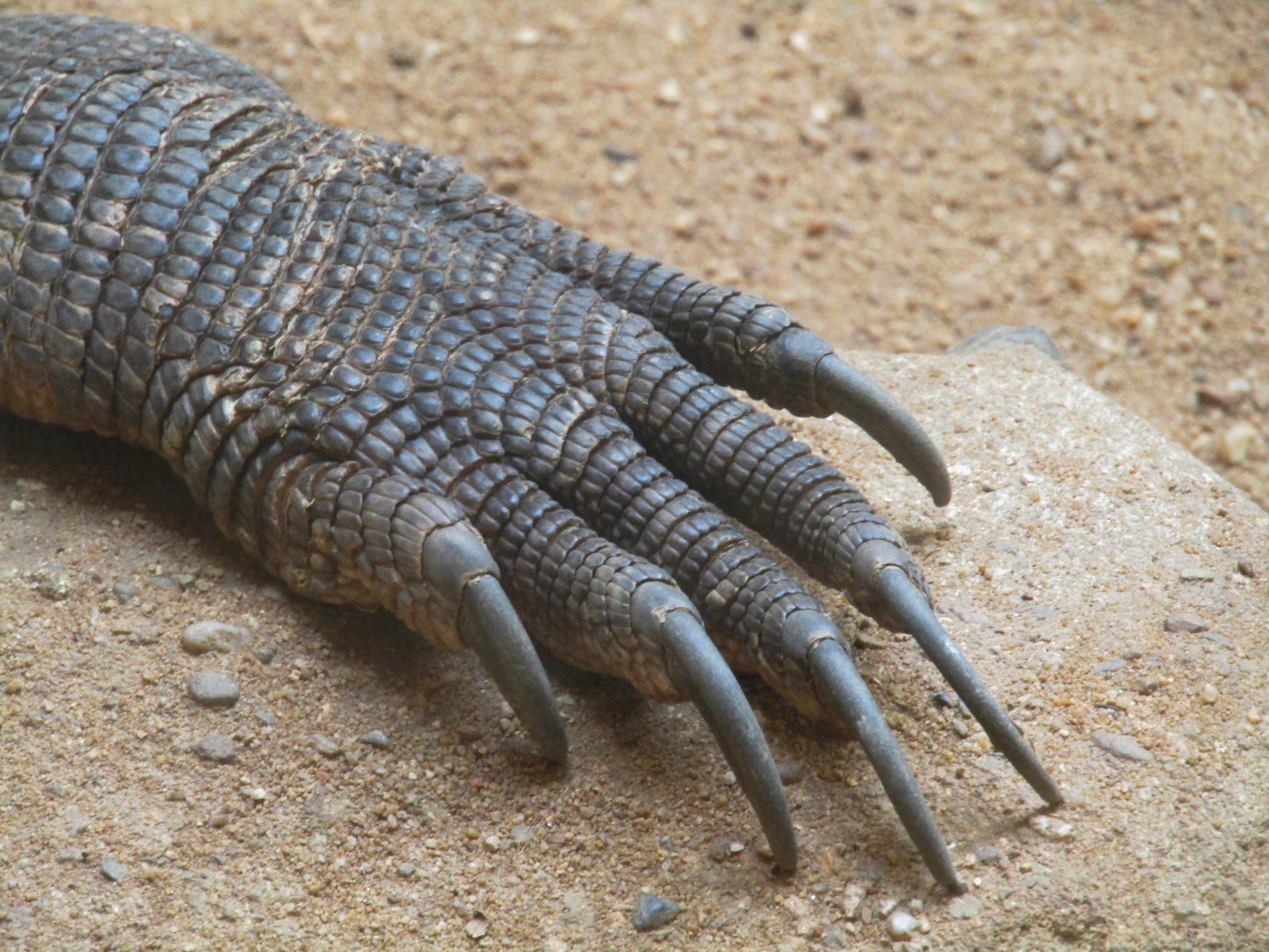 Front foot with claws of a Komodo dragon in the Plzeň zoo, Czech Republic